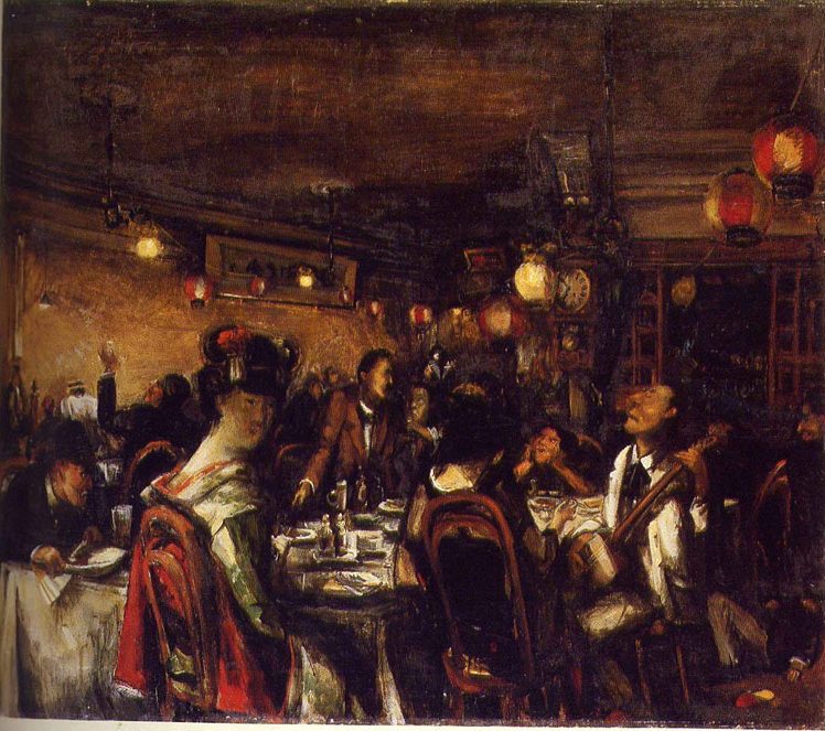 Pan party